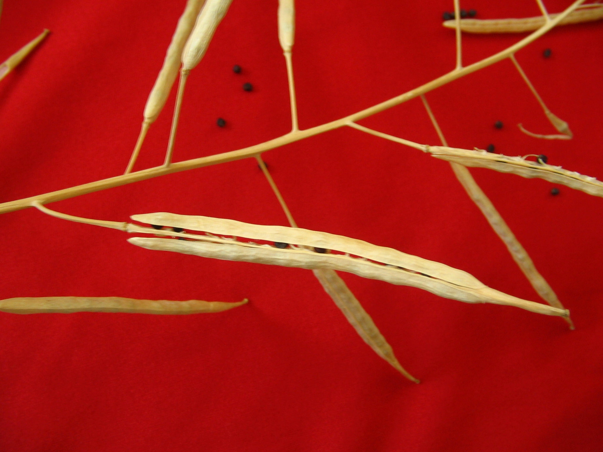 Silique of B. napus, slightly opened, showing direction of opening